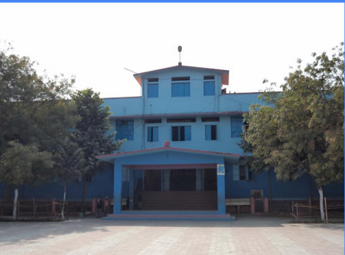 This building is 'The New Catholic Mission School'(9th-12th),Jhabua